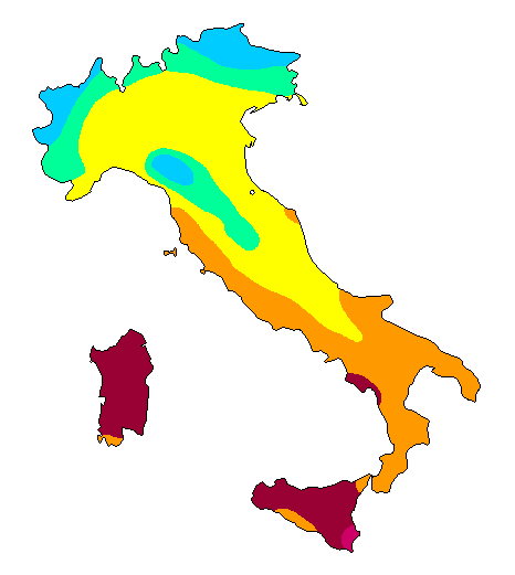 Map of daily sunshine hours in Italy in August